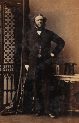 Portrait of Henry Blair Mayne (1813–1892), English lawyer and parliamentary official.